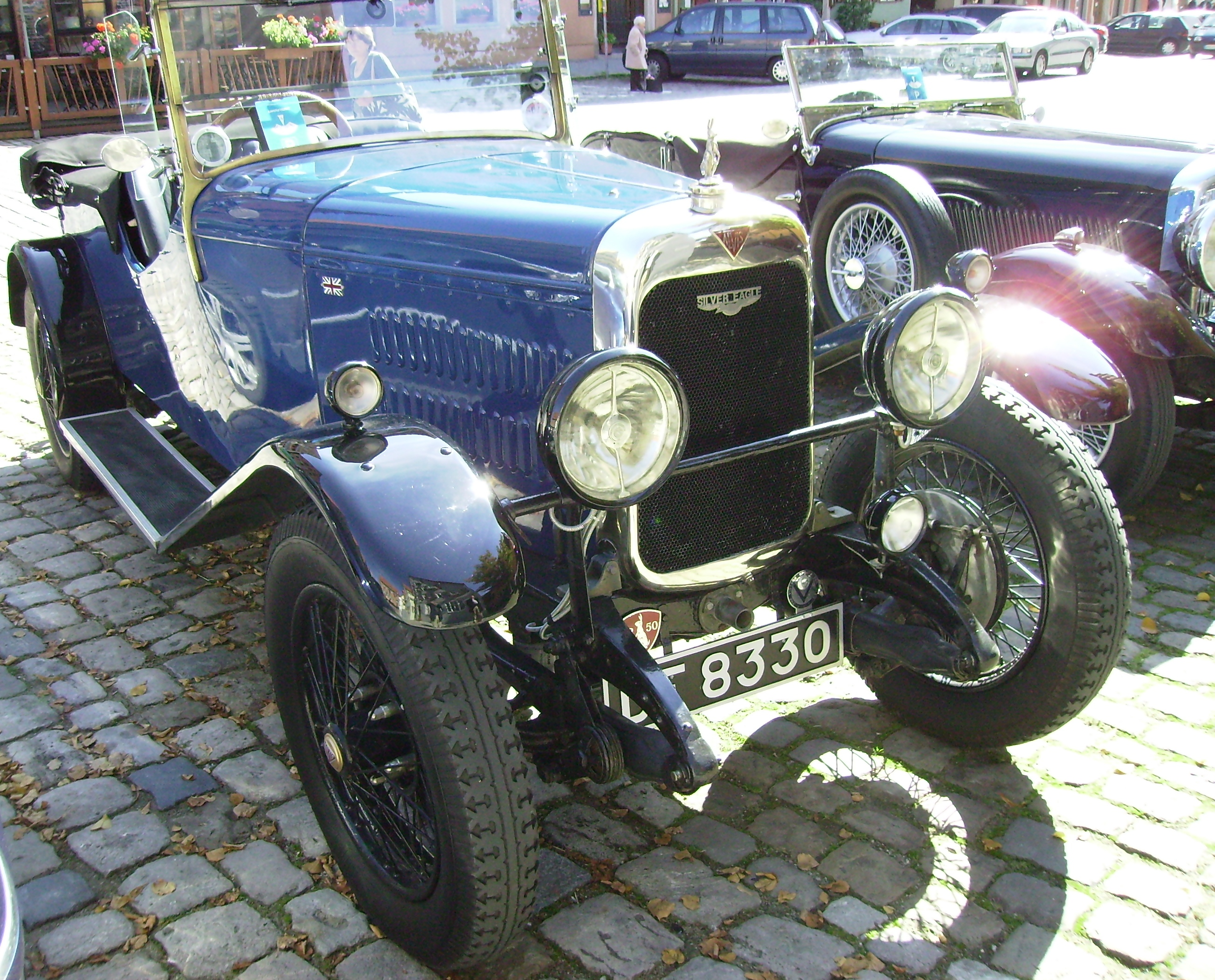 Alvis Silver Eagle seen in Dinkelsbuehl/Germany (DVLA) first registered 17 July 1929, 2148cc